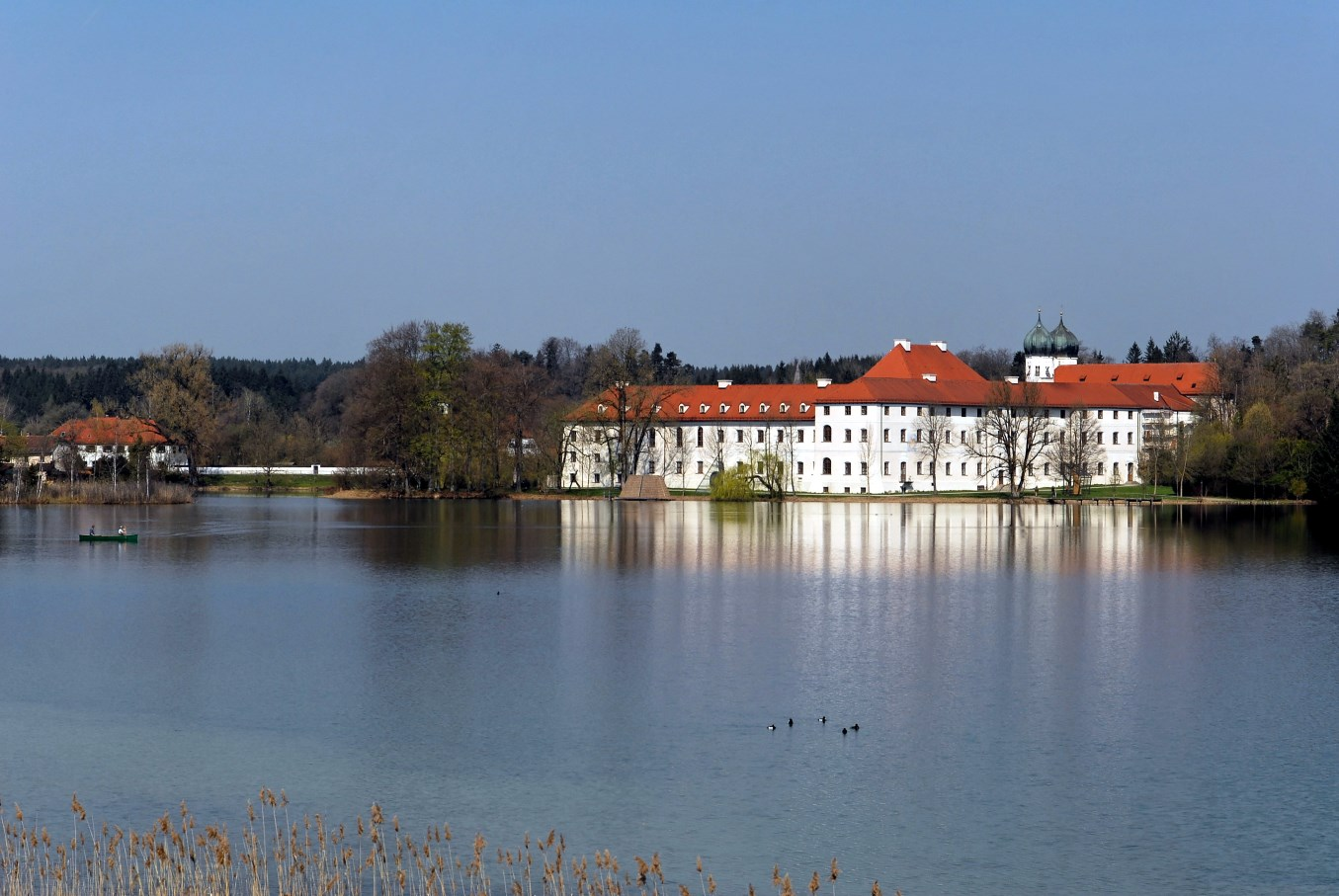 Seeon, Monastery with Lake